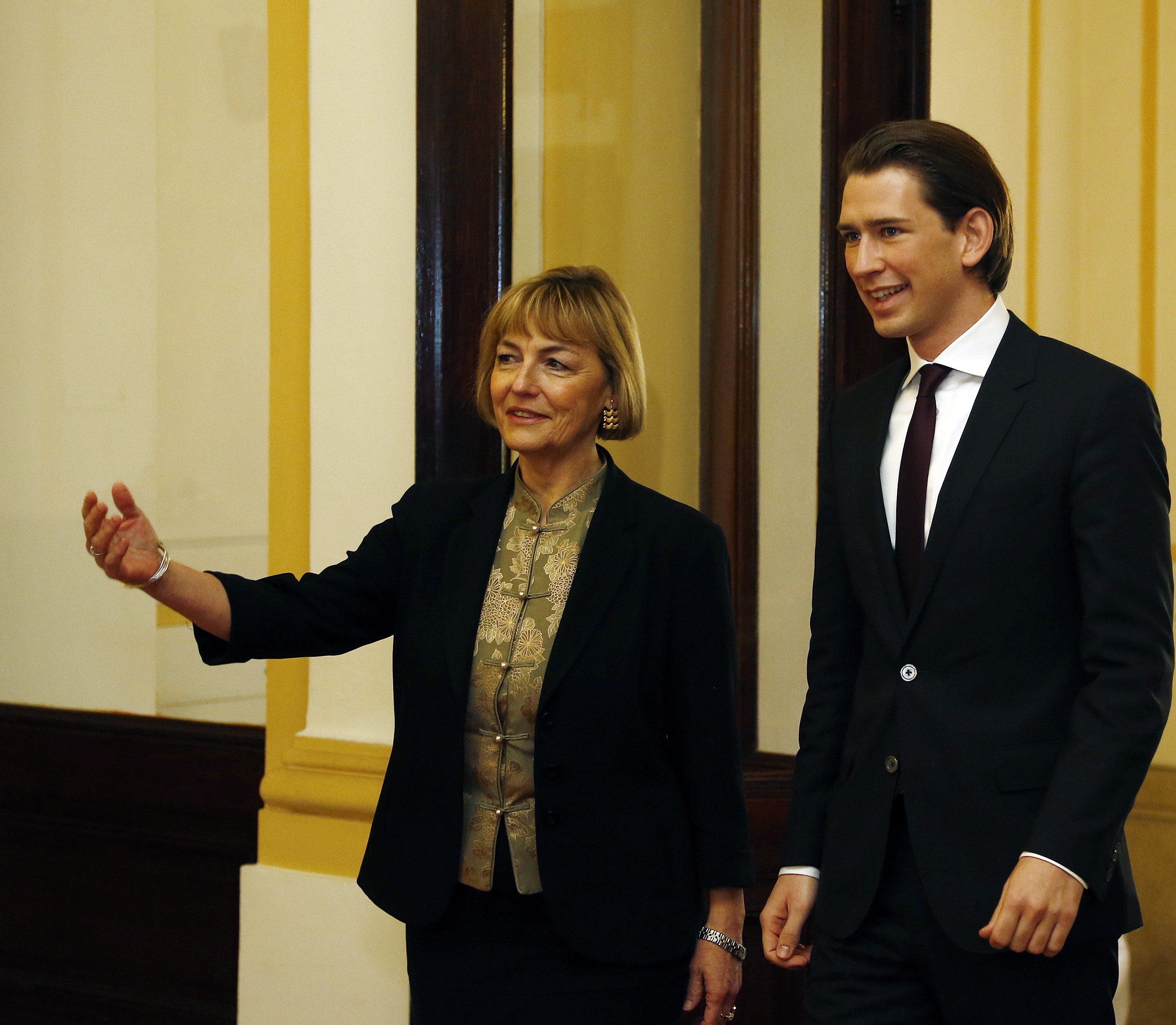 Meeting between Austrian foreign minister Sebastian Kurz and his Croatian counterpart Vesna Pusić in Zagreb.